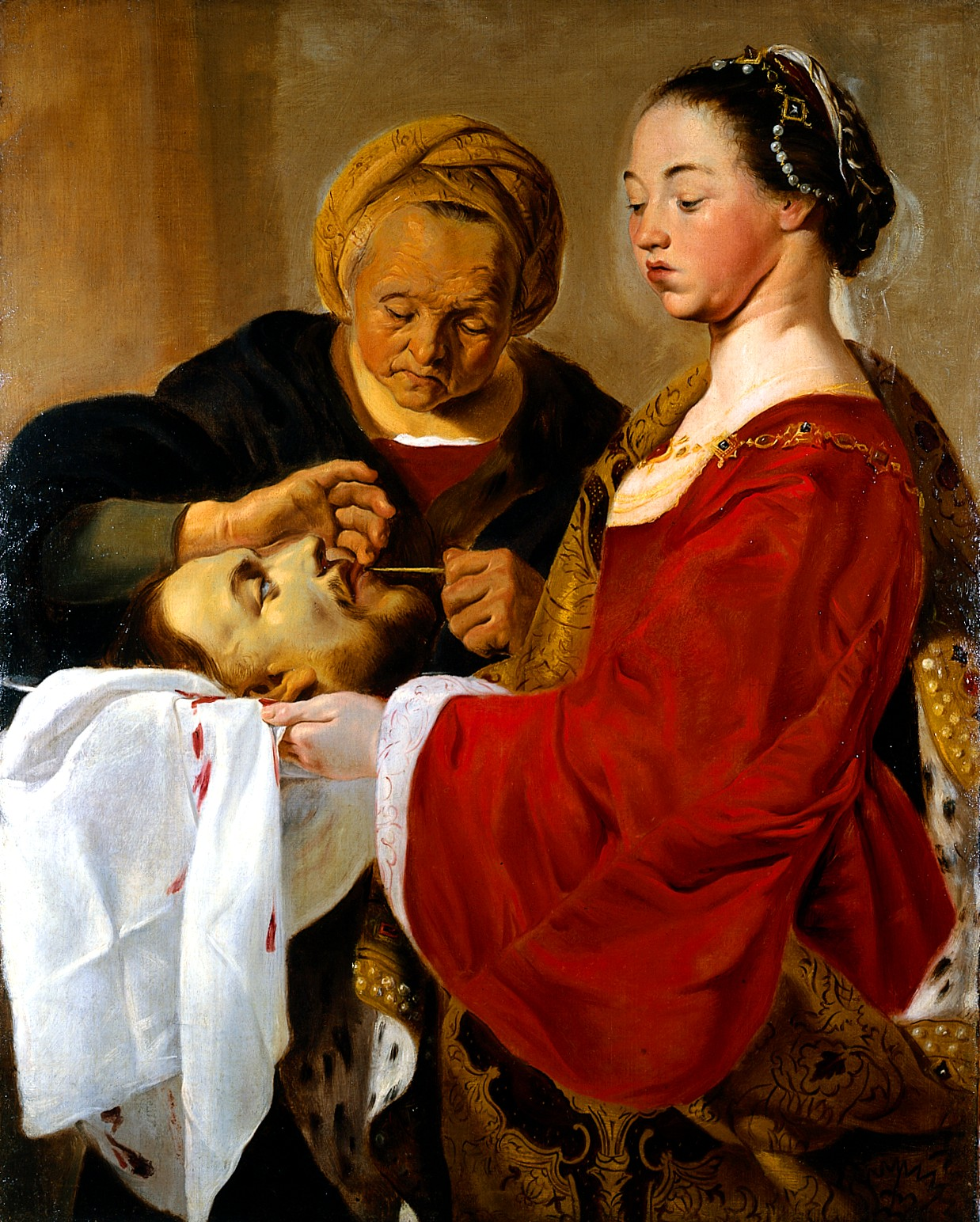 Herodias mutilating the head of St John the Baptist held by Salome: after restoration, 1985 Iconographic Collections Keywords: Pieter Fransz. de Grebber; Pieter Fransz. de Grebber